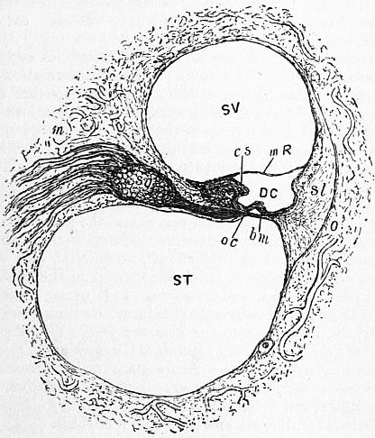 Transverse Section through the Tube of the Cochlea. m, Modiolus. 0, Outer wall of cochlea. SV, Scala vestibuli. ST, Scala tympani. DC, Ductus cochlearis. mR, Membrane of Reissner. bm, Basilar membrane. cs, Crista spiralis. sl, Spiral ligament. sg, Spiral ganglion of auditory nerve. oc, Organ of Corti.